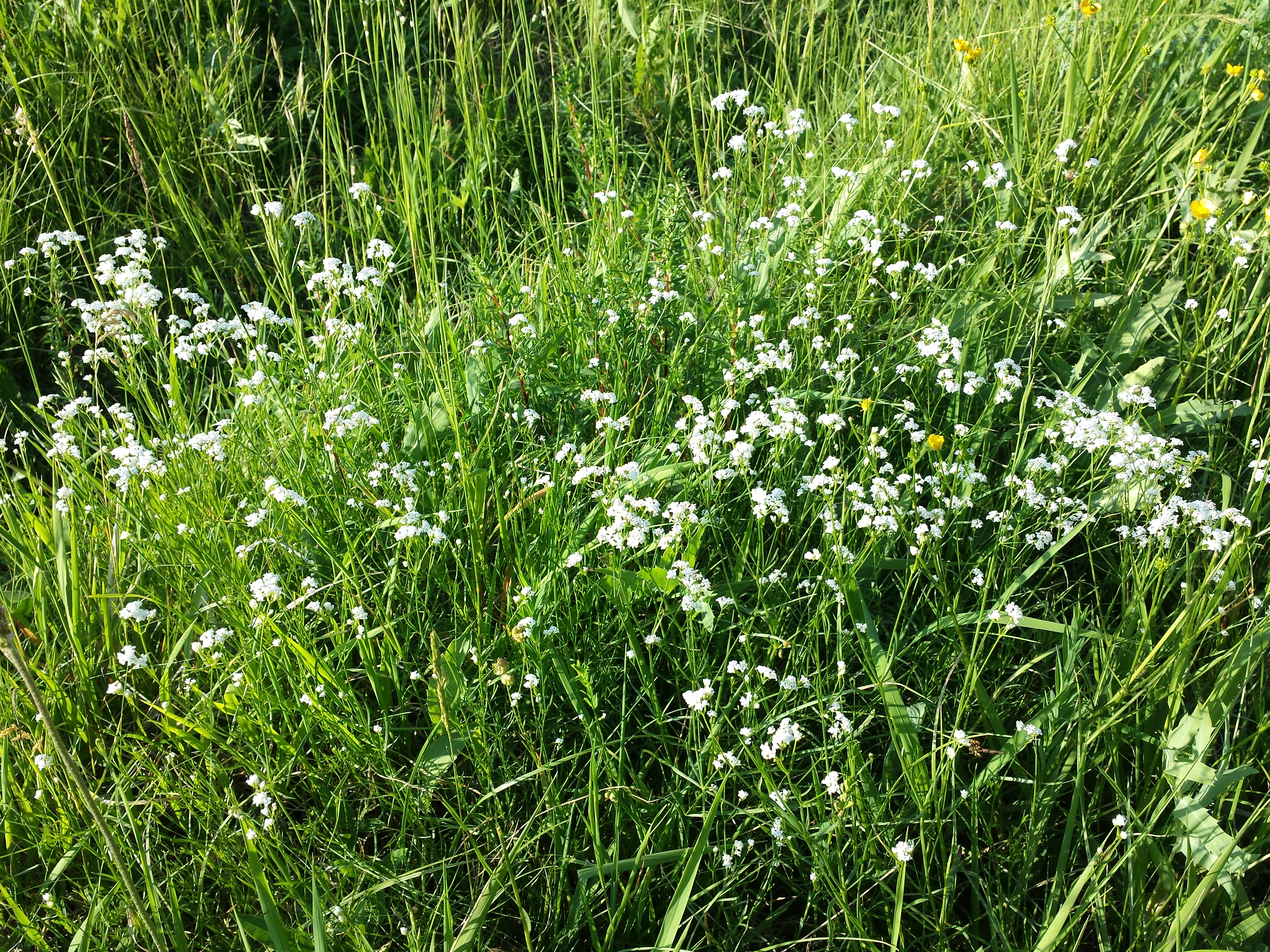 Habitus Taxonym: Asperula tinctoria ss Fischer et al. EfÖLS 2008 ISBN 978-3-85474-187-9 Location: Steinberg near Niederhollabrunn, district Korneuburg, Lower Austria - ca. 375 m a.s.l. Habitat: semi-dry grassland